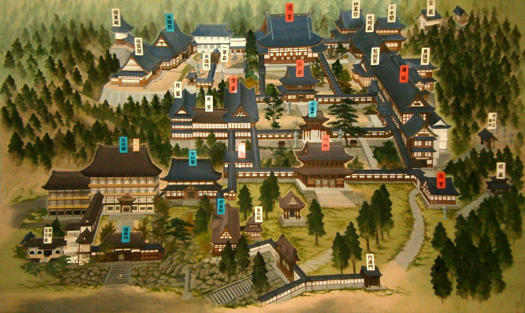 Painted map of Eiheiji found inside the temple complex.